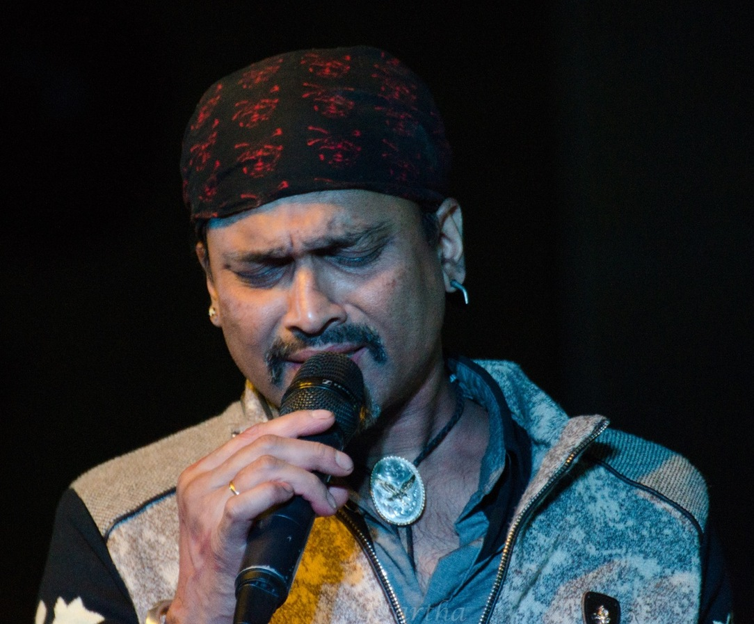 Zubeen Garg performing in Edufest 2016, the annual college week of Gauhati Medical College Hospital, Guwahati.